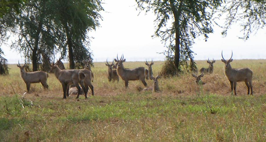 Waterbucks in Gorongosa National Park, Mozambique. camera is pointing north. altimeter reading: 21 meters